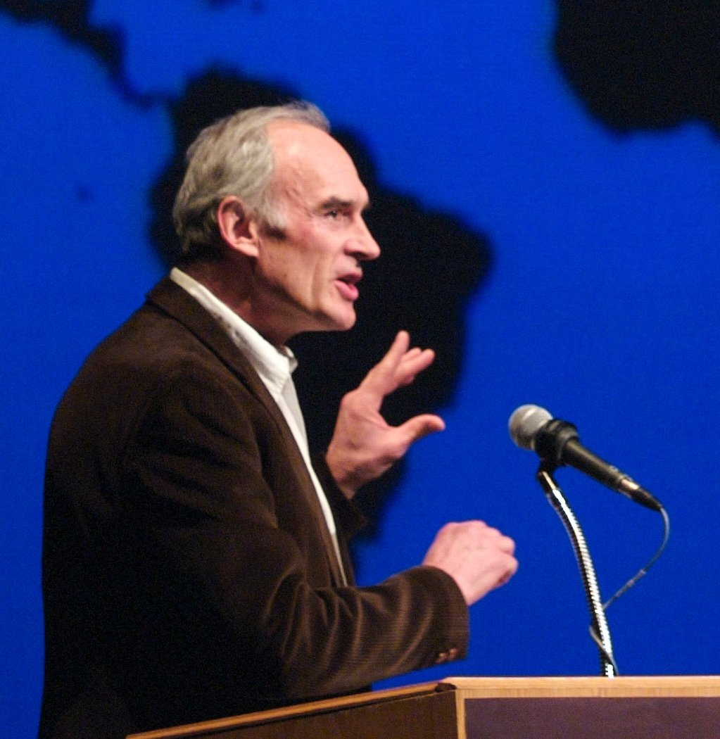 Ronald Wright, speaking in the Myer Horowitz Theatre at the University of Alberta as part of Internation Week 2007. Cropped Version of Image:Ronald Wright Edmonton 2007.jpg for use as a thumbnail